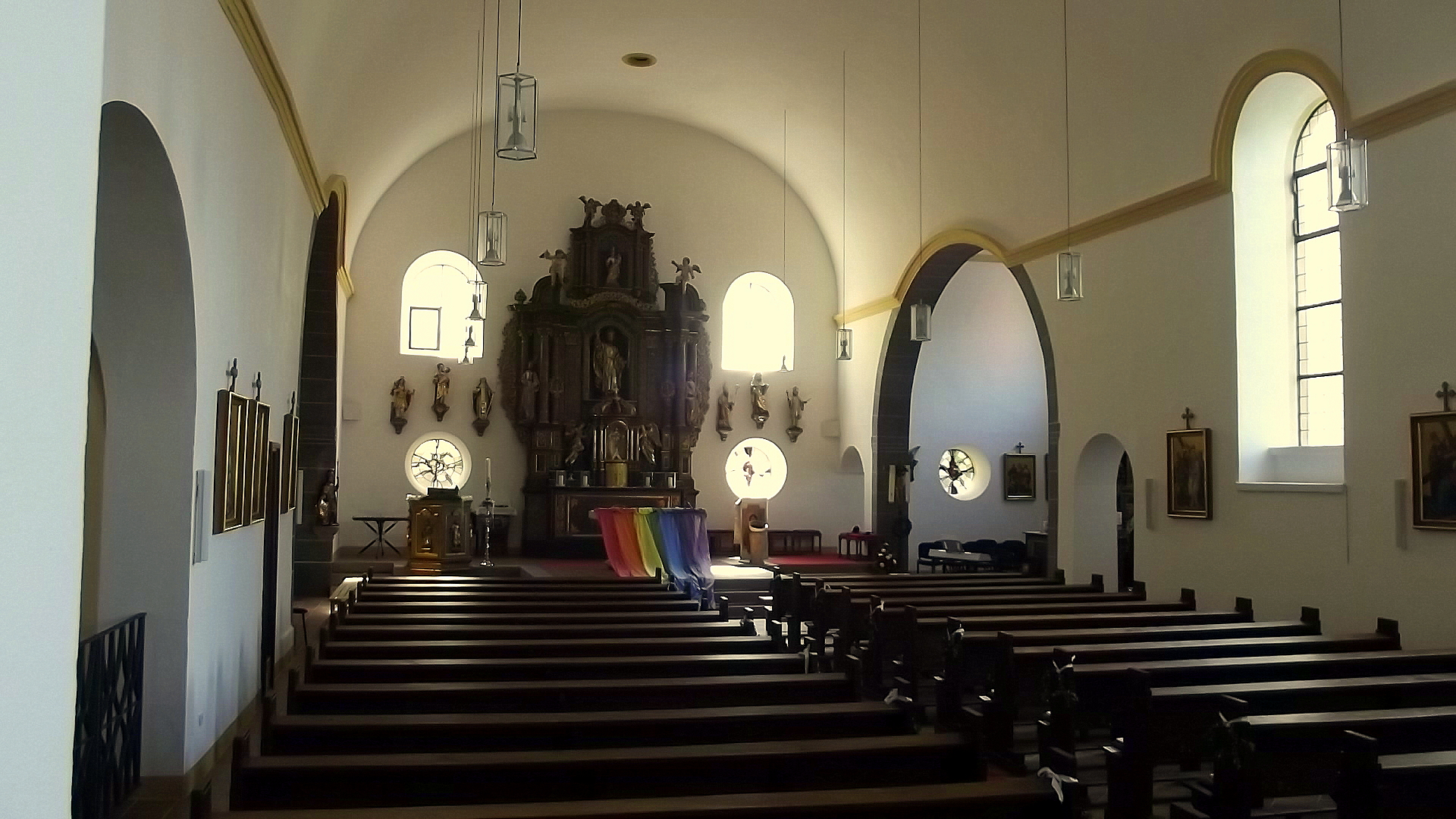 Interior of the roman catholic church in Perl, Saarland, Germany